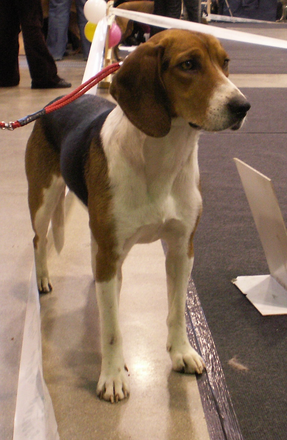 Estonian Hound